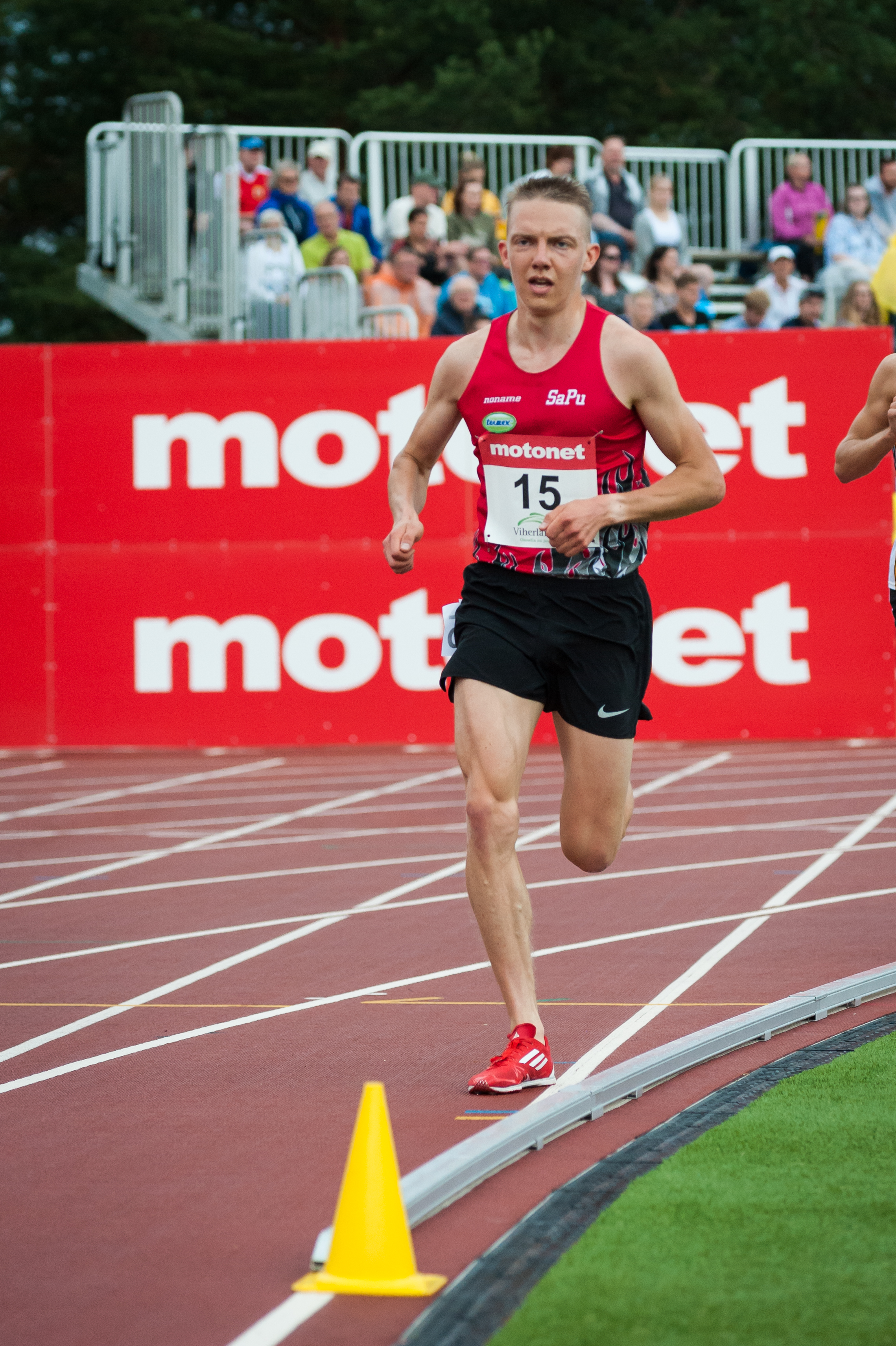 Men's 5000 m competition at the 2018 Kalevan Kisat, the Finnish championships in athletics, in Jyväskylä, Finland.